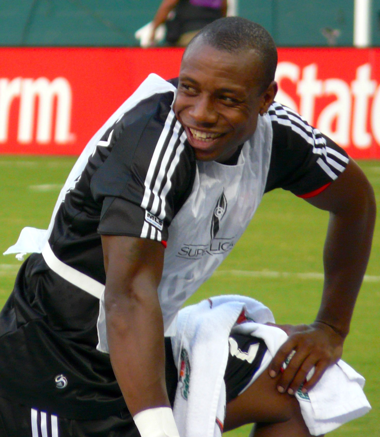 Gonzalo Martinez warming up before a Major League Soccer (MLS) Superliga match between D.C. United and Houston Dynamo at RFK Stadium, Washington, DC.